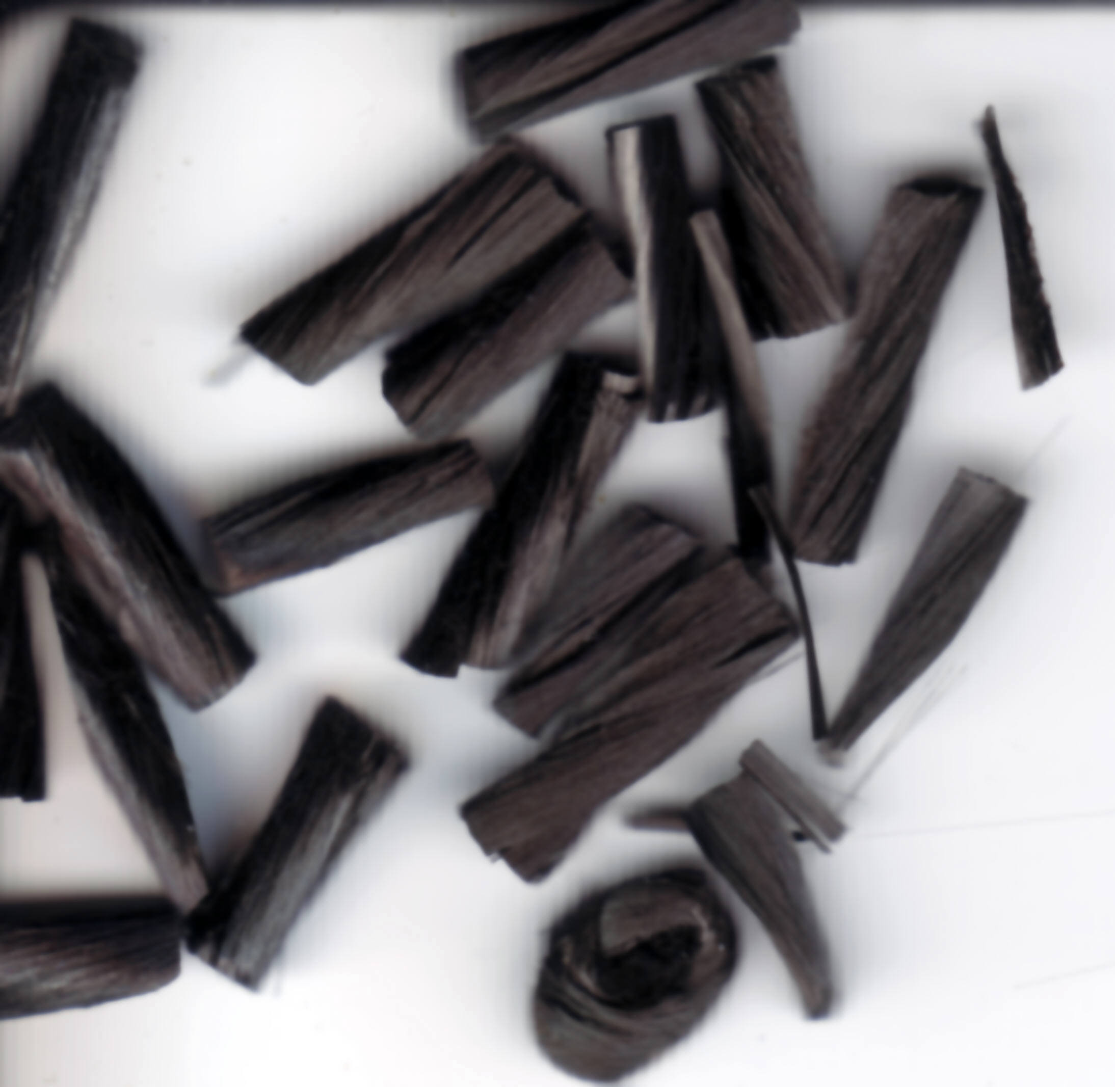 Carbon fibres, 8mm length, chopped, scanned in at 2000dpi